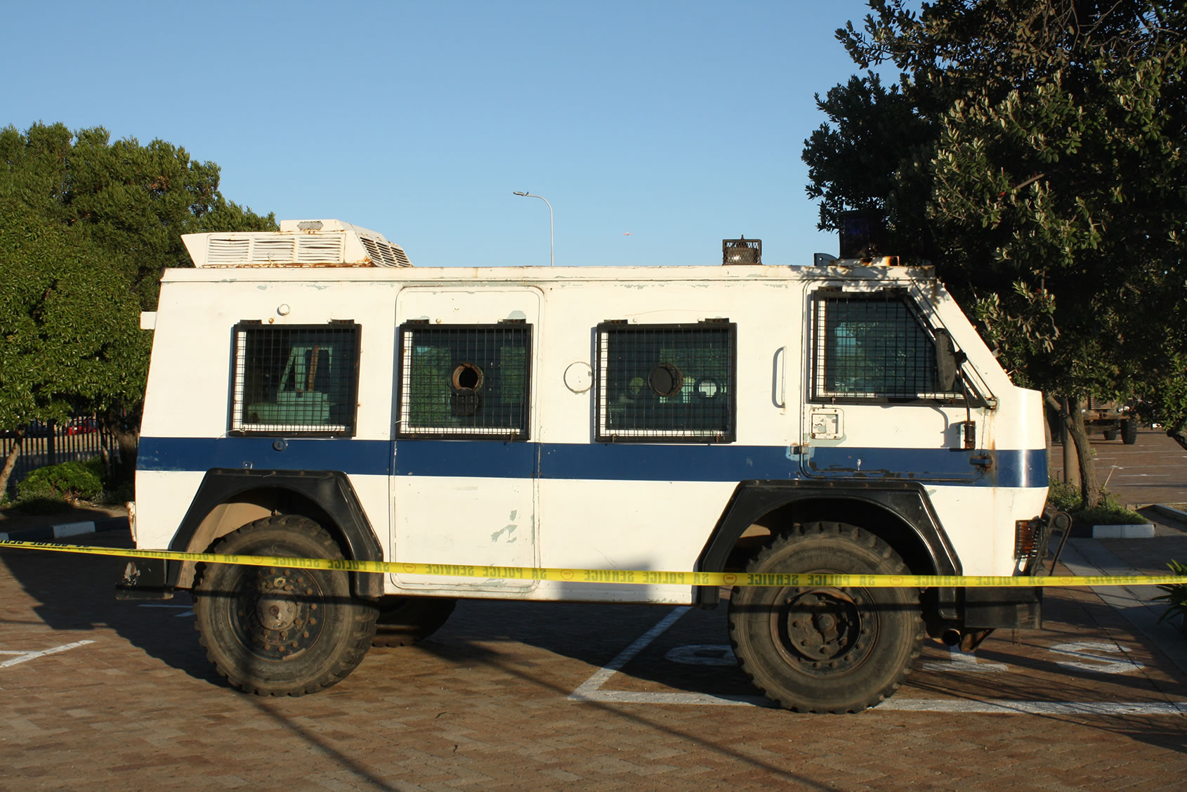 A strong police presence is on standby at Table View Shopping Mall to prevent any violent protest against the suspension of the Bayside minibus taxi stacking facility in Blaauwberg Road. The Nyala Armoured Personnel Carrier is alternately known as the RG12. It was designed specifically for the SAPS (South African Police Service) to fulfil its need for a Riot Control vehicle. The 6 crew in the rear of the vehicle face outwards through large, mesh covered, bullet resistant windows. The 1.6m high side doors allow for rapid deployment. As the SAPS phase out their use of the overtly aggressive Casspir APC, the Nyala APC is being used very successfully in a wider range of policing roles.